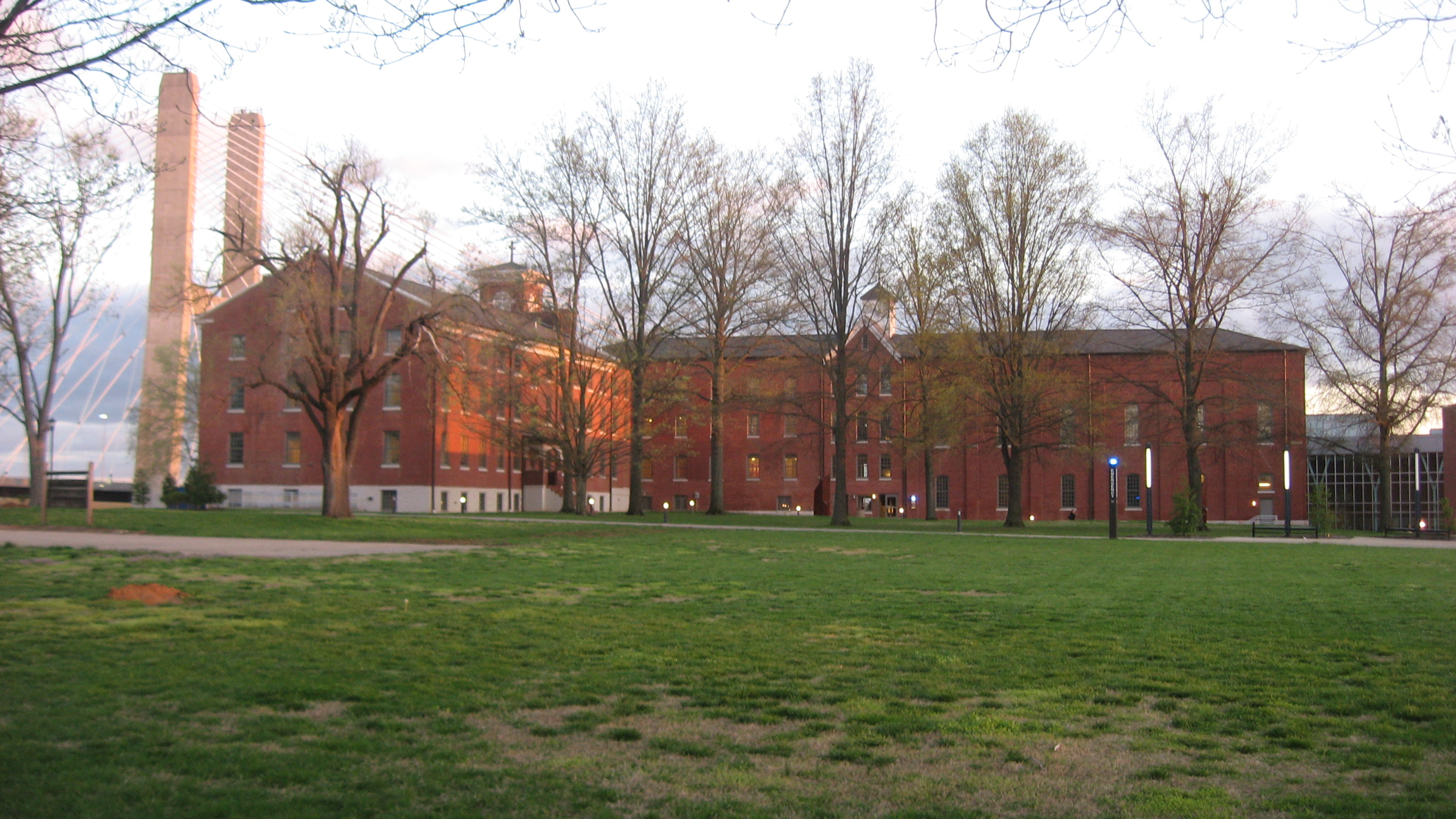 View from the north of the Saint Vincent's College Building, located at 201 Morgan Oak Street in Cape Girardeau, Missouri, United States. Built in 1843, it is listed on the National Register of Historic Places. The western tower of the Bill Emerson Memorial Bridge is visible in the background.